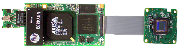 Found on - the entire wiki is under GNU FDL 1.2. I made that image and placed it on our wiki. I confirm that it (as all our wiki) is under GNU FDL 1.2. --AndreyFilippov 23:15, 12 September 2007 (UTC)